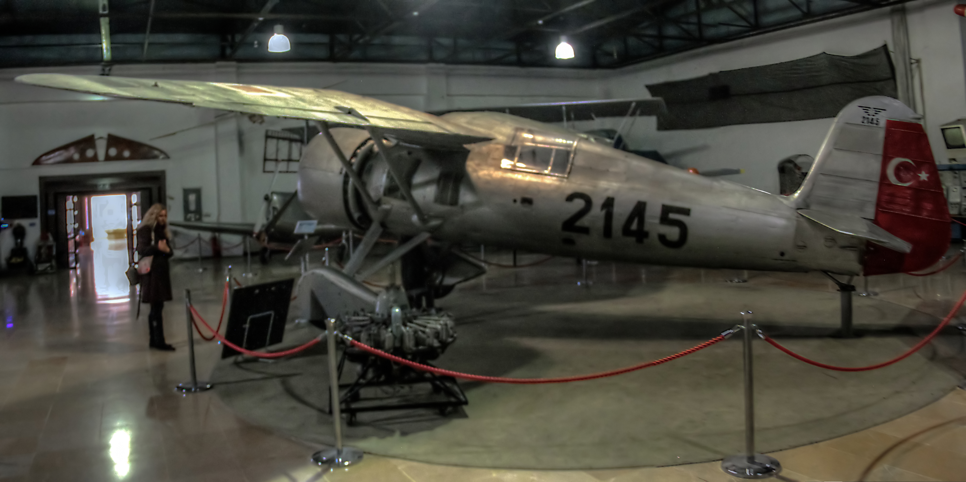 The only surviving example of a PZL P.24 in the world. Turkish Aviation Museum, Istambul